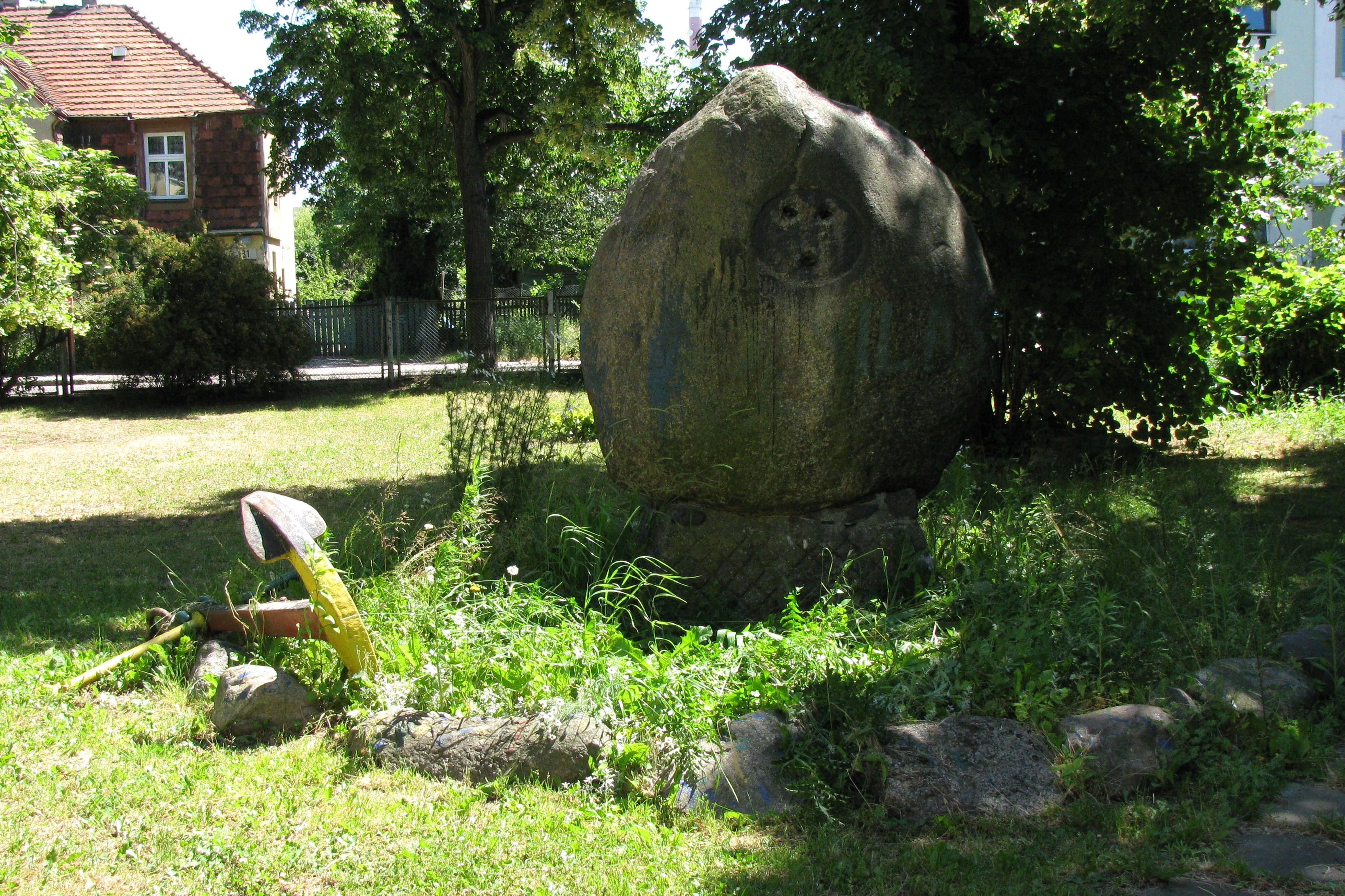 Skagerrakstein or Marine-Gedenkstein or Marine-Ehrenmal - a monument to the German Kriegsmarine soldiers dead and missing on the sea during World War I. Erected 1939 in Gdańsk (former Danzig).